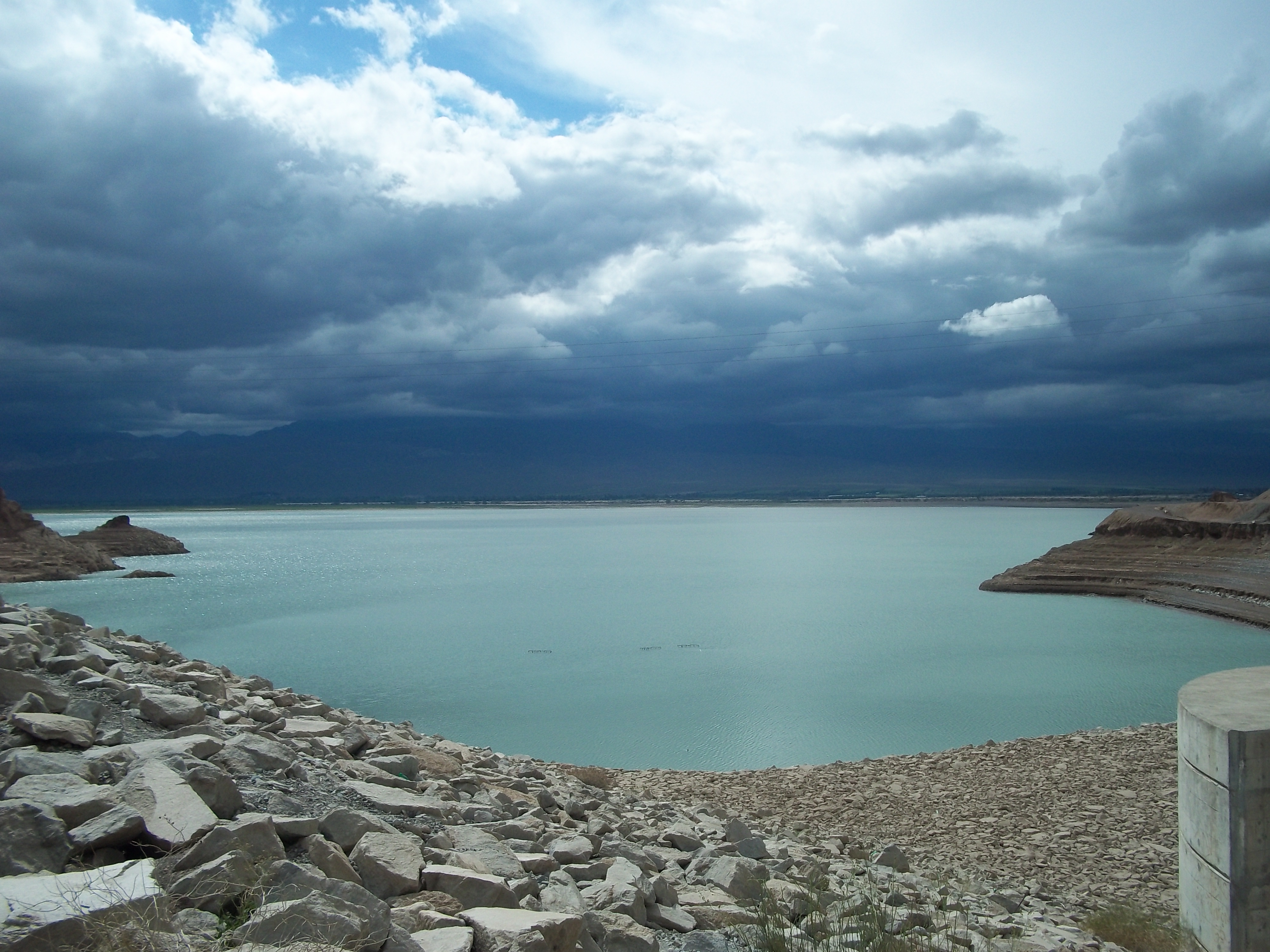 Vista del Embalse Ullum, desde su respectivo dique, provincia de San Juan, Argentina.